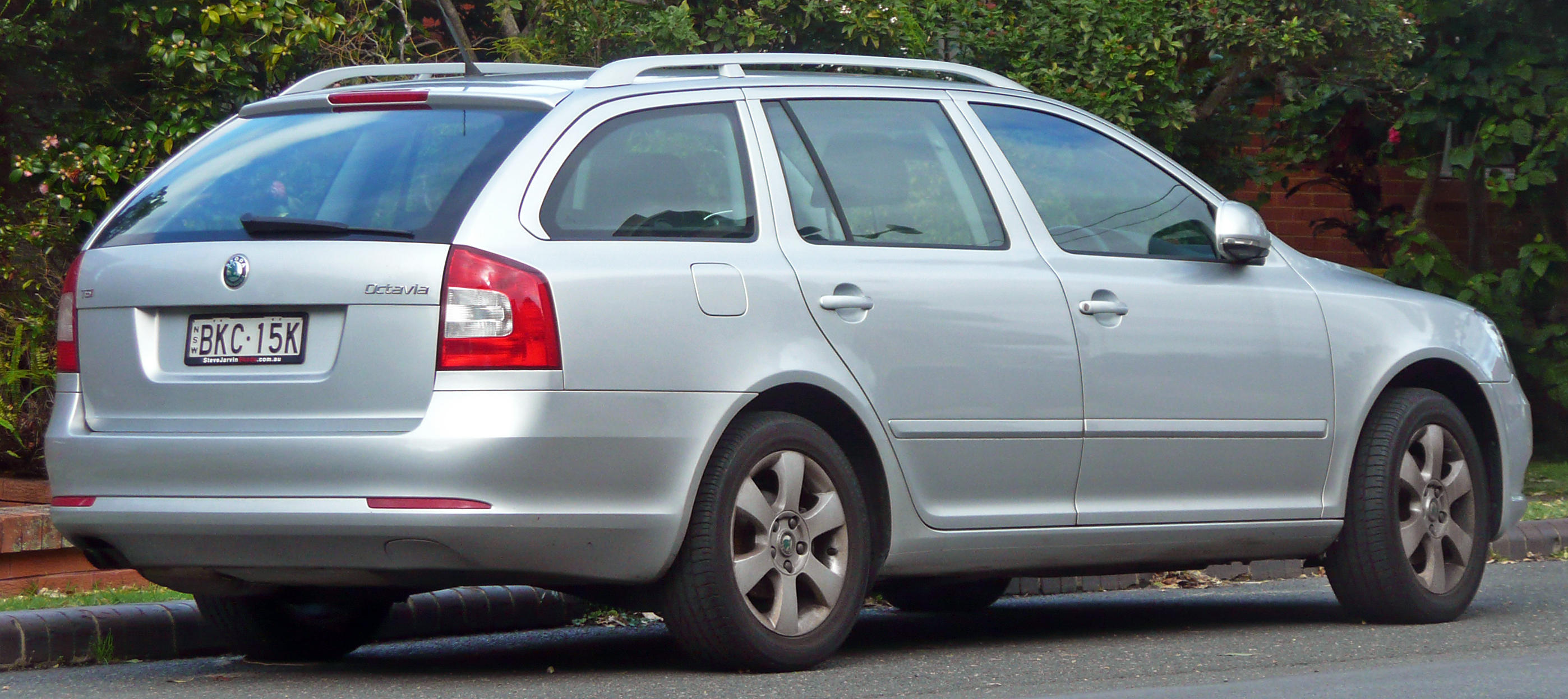 2009–2010 Škoda Octavia TSI station wagon. Photographed in Cronulla, New South Wales, Australia.